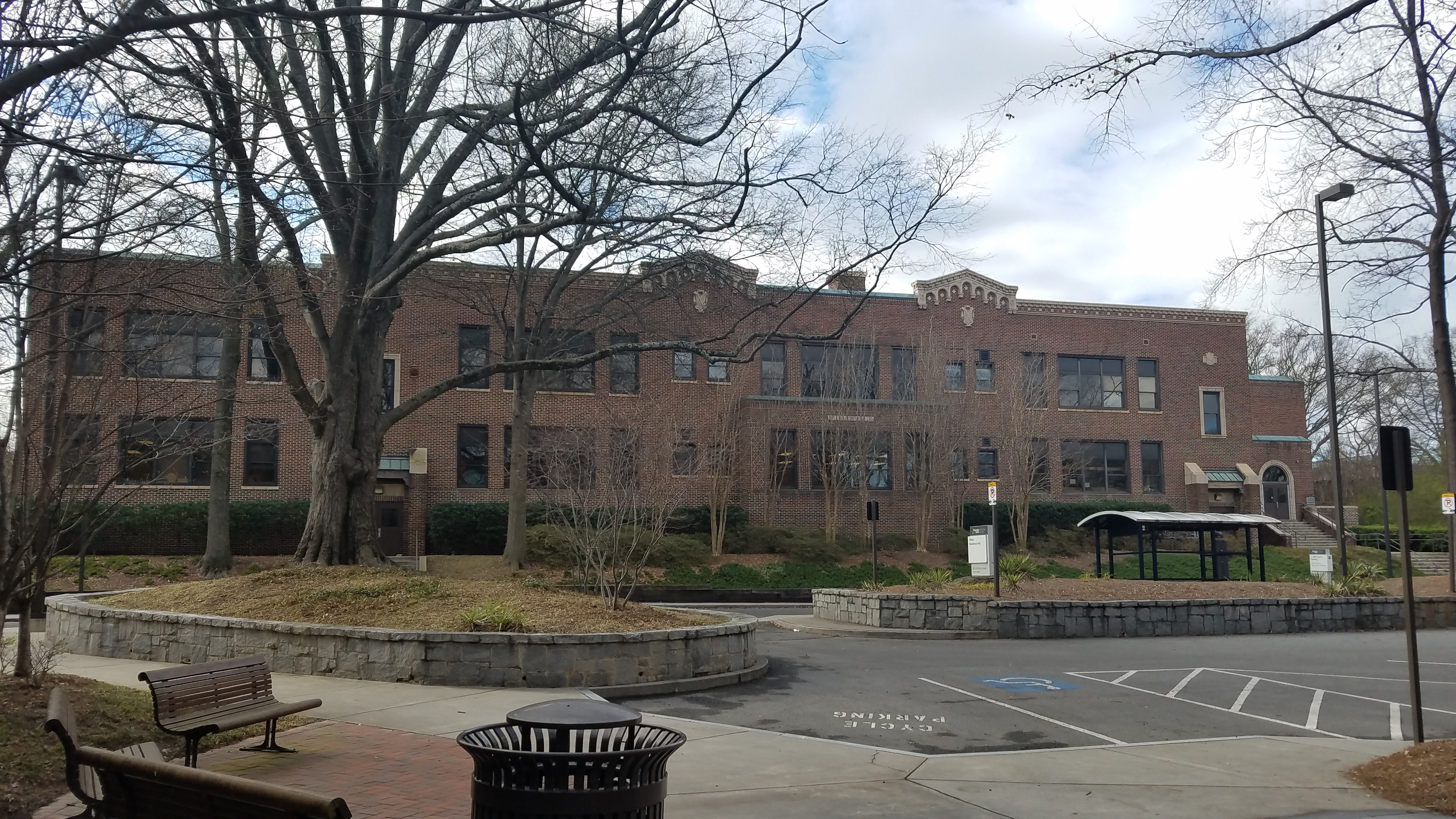 Couch Building on the main campus of the Georgia Institute of Technology, Atlanta, Georgia, United States